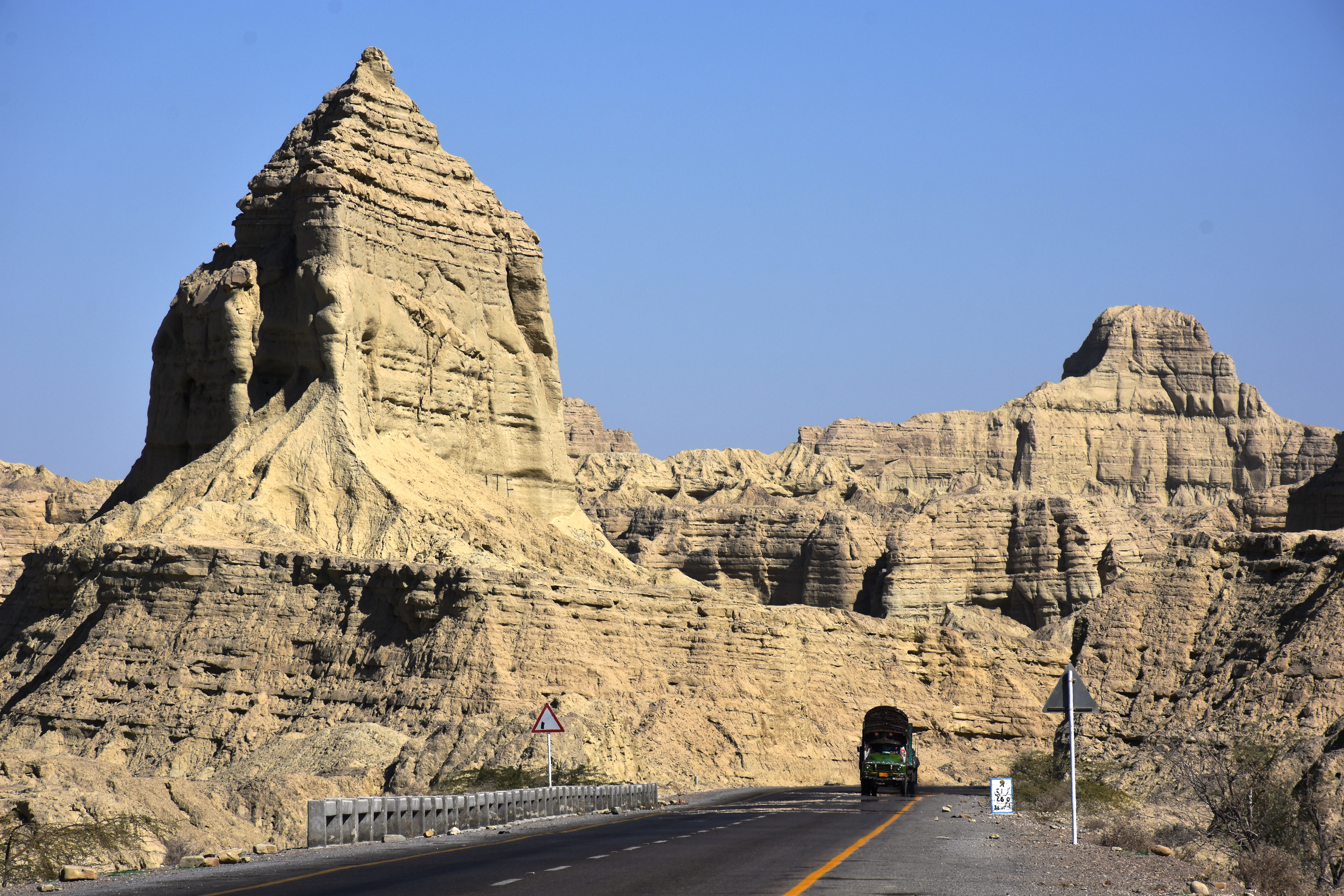 Hingool National Park